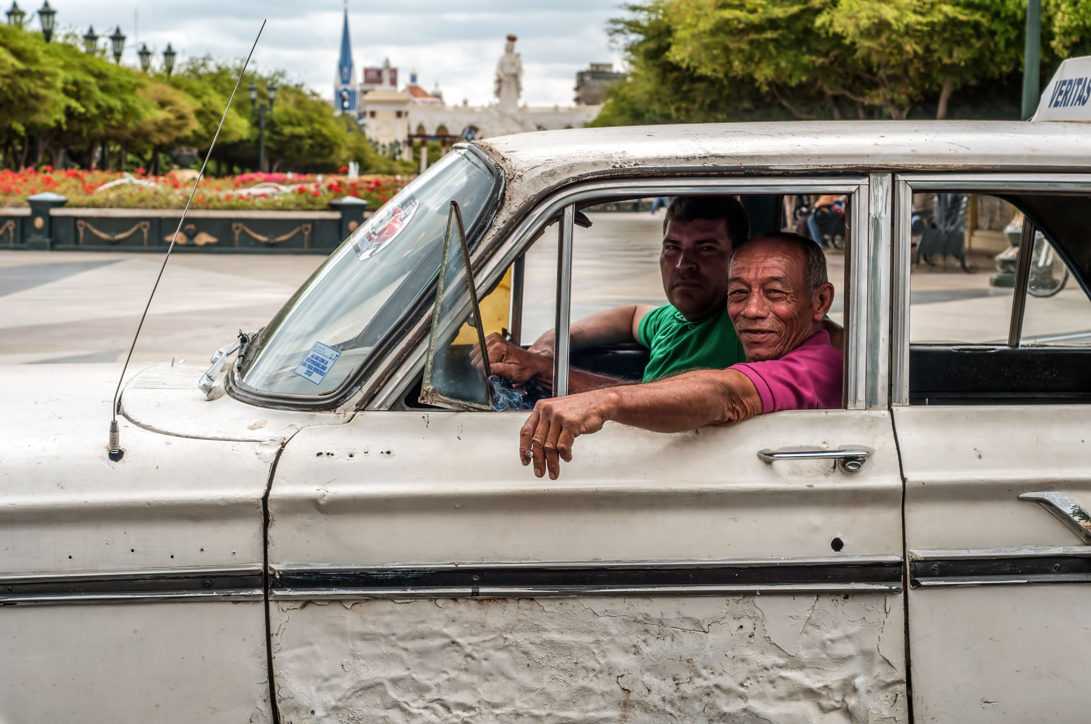 Public transport share taxi in Maracaibo city, Zulia, Venezuela